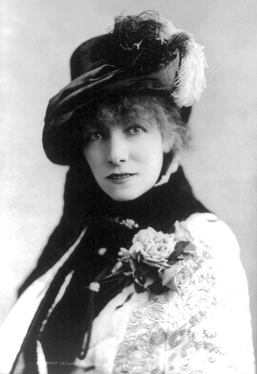 Sarah Bernhardt, bust-length portrait